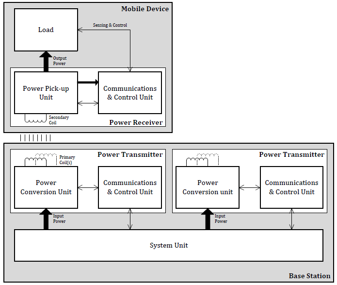 The picture shows the basic system overview of a wireless power transfer system based on the Qi specification.